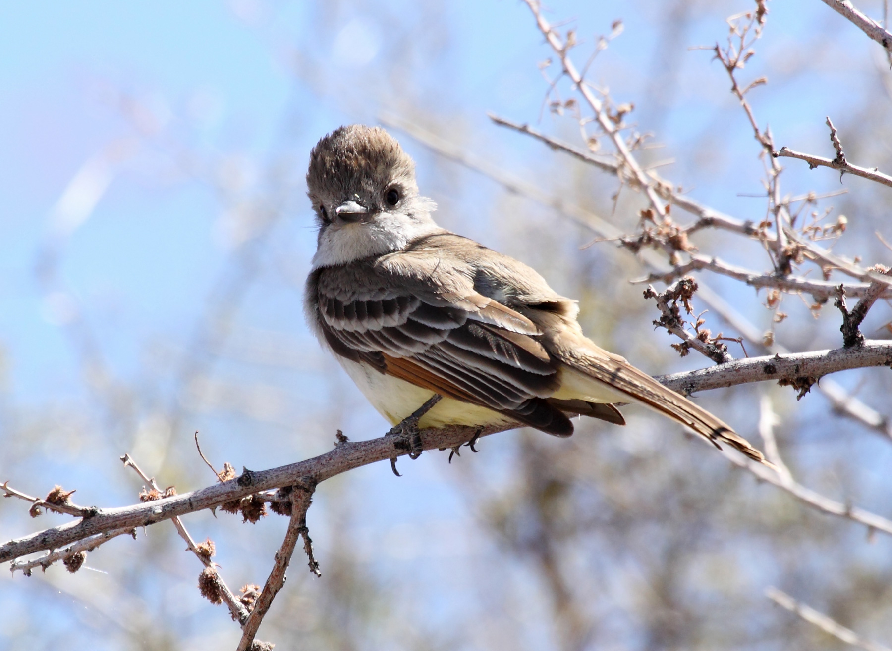 Brown-crested-flycatcher (Myiarchus tyrannulus), Hugh Norris Trail, Saguaro National Park (west), Arizona, USA